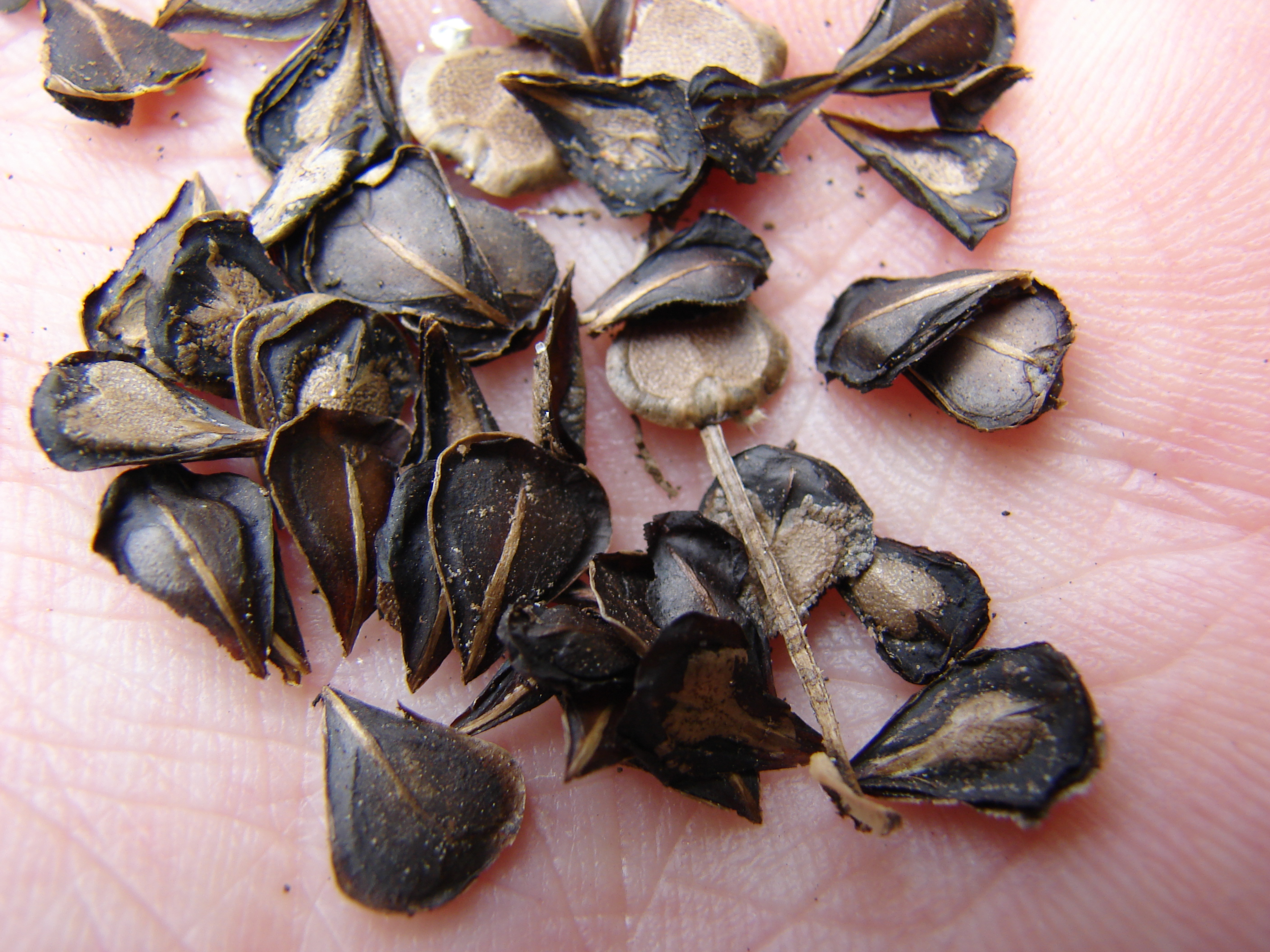 Aristolochia littoralis (dehisced fruit and seeds). Location: Maui, Enchanting Gardens of Kula